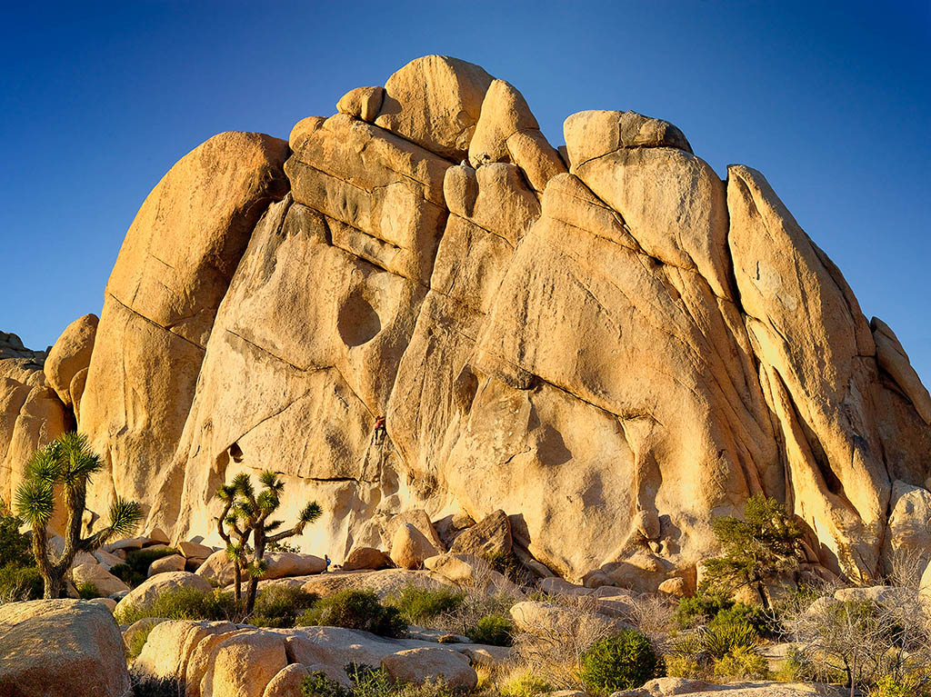 Old Woman Formation in Joshua Tree National Park. A weathered granite rock formation in the Mojave Desert of Southern California. Credits Photographed by Doug Dolde. More images from this location at